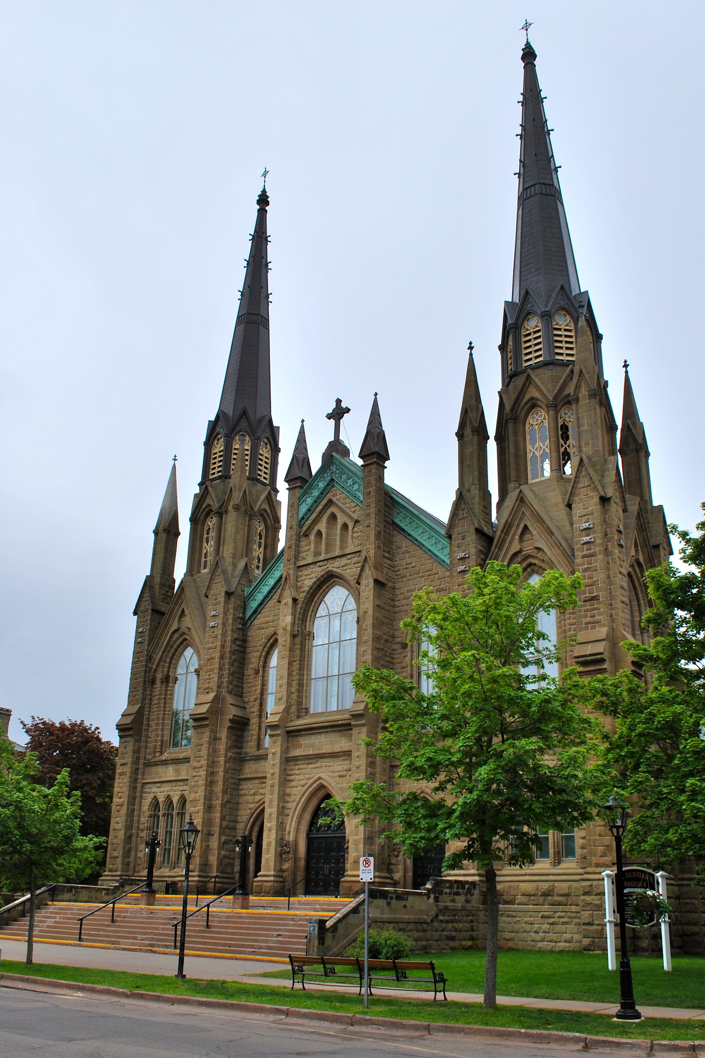 St. Dunstan's Roman Catholic Cathedral / Basilica National Historic Site of Canada